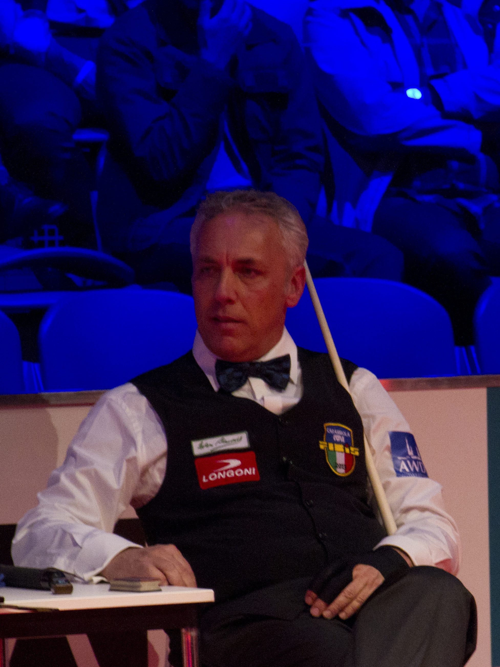 Portrait of Marco Zanetti. Cropped from File:2013 3-cushion World Championship-Day 3-Session 2-19.